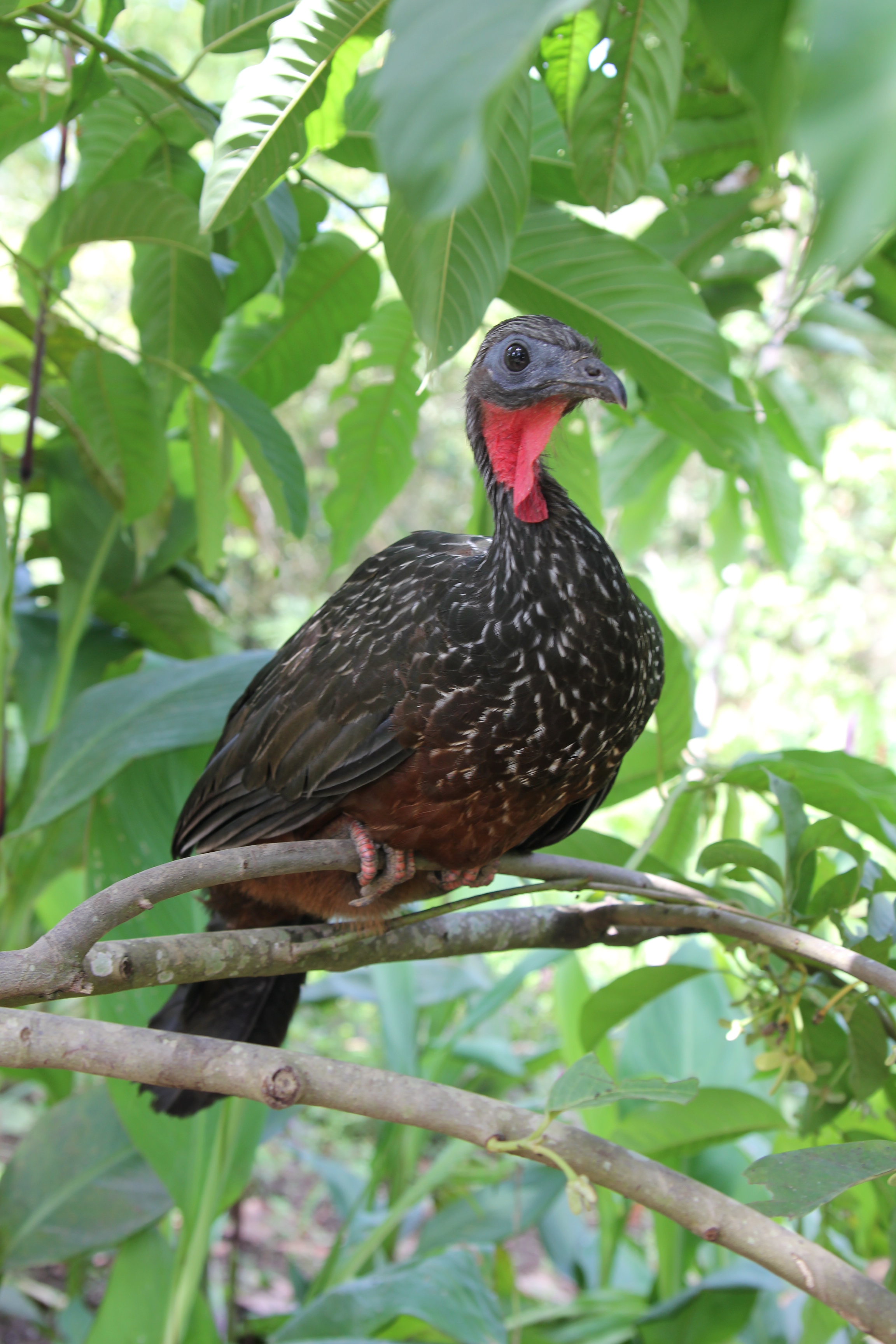 A Spix's Guan at Manu National Park, Peru.